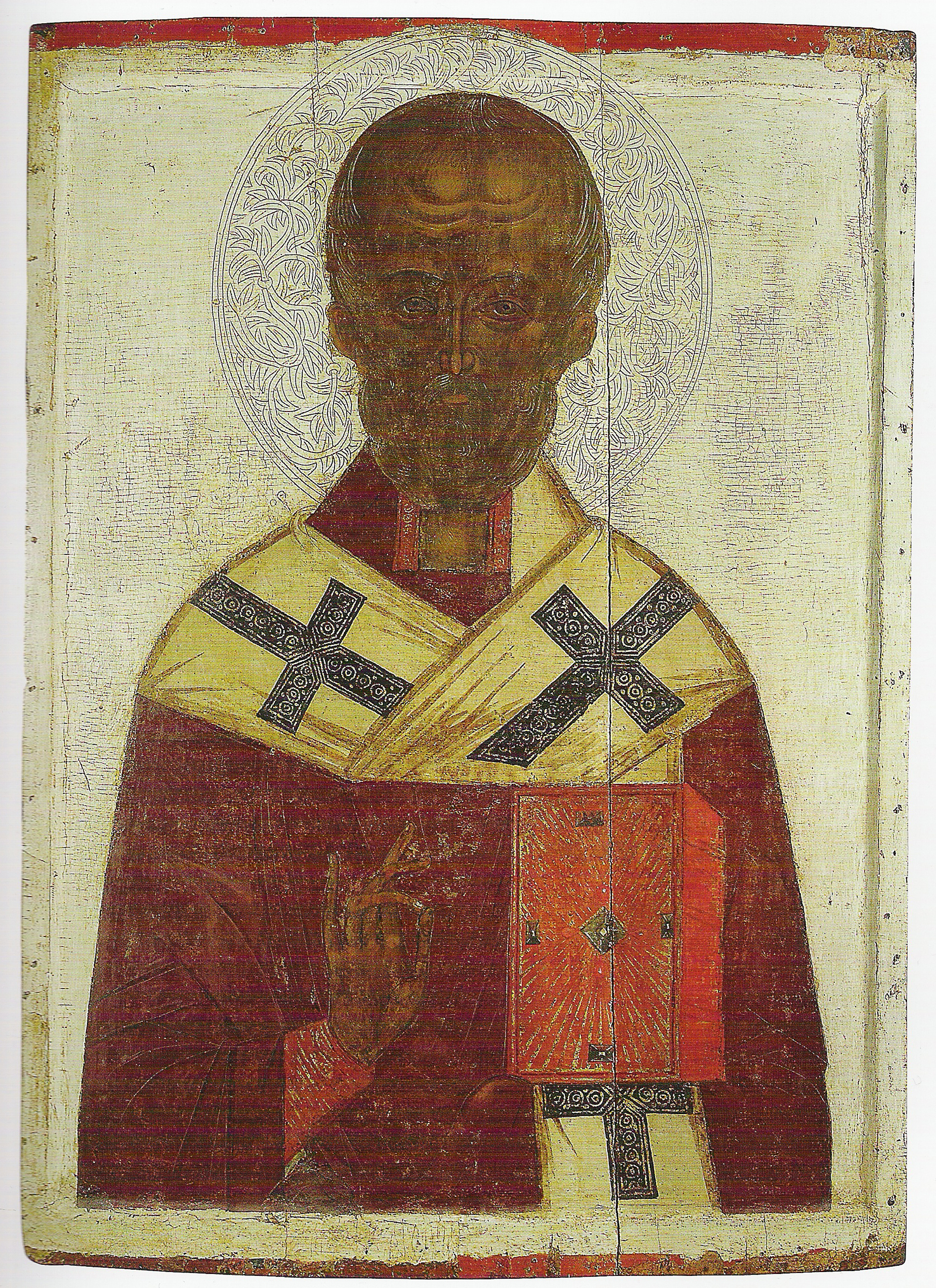 Icon of Saint Nicolas from Constantine and Helena Church, Vologda, XV century